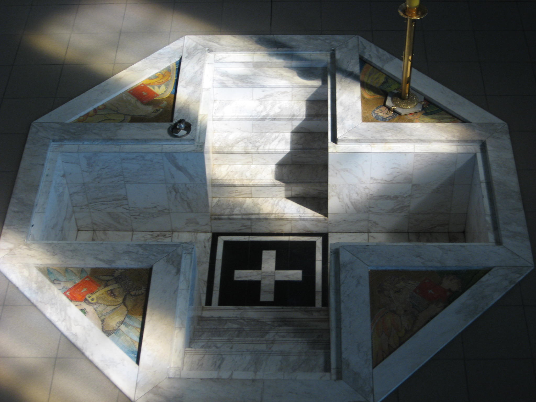 baptismal pool